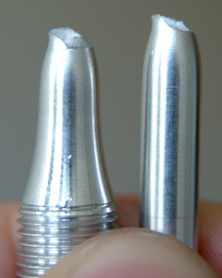 Tensile test of an AlMgSi alloy. This is a ductile fracture type, as seen by the local necking and the cup and cone fracture surfaces.